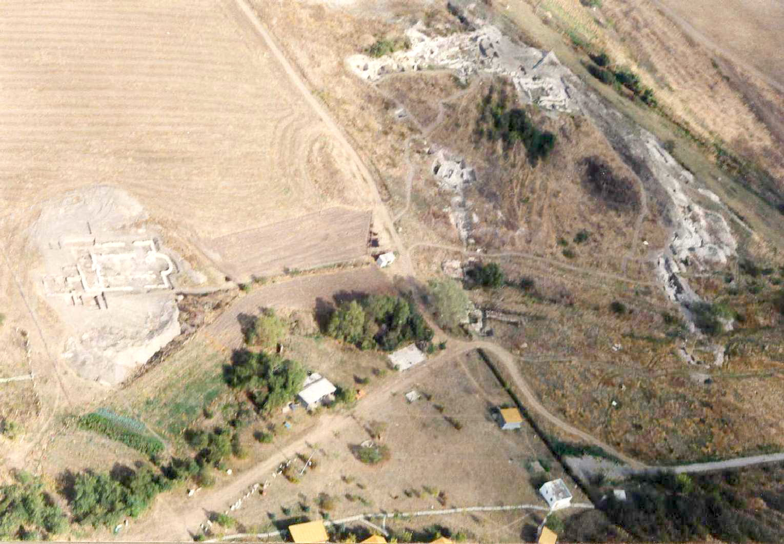 aeral photo of the late roman stronghold Carassura near the modern city of Chirpan in Bulgaria.